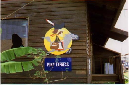 Image of the logo for Operation Pony Express, at the 20th HES, Udorn Royal Thai Air Force Base, Thailand. Vietnam War.